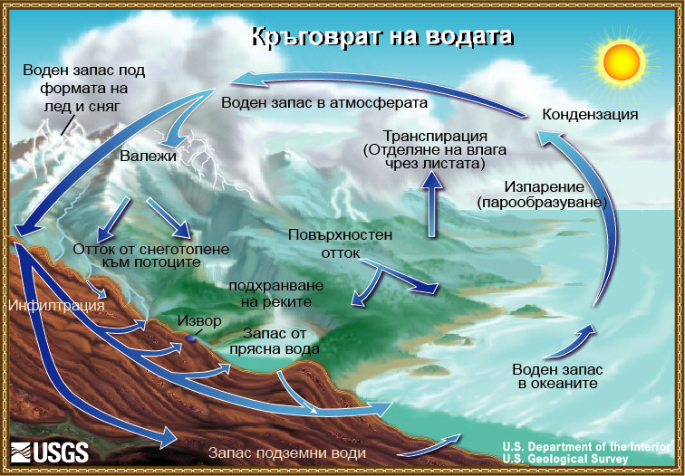 Water-Cycle Diagram (Bulgarian)